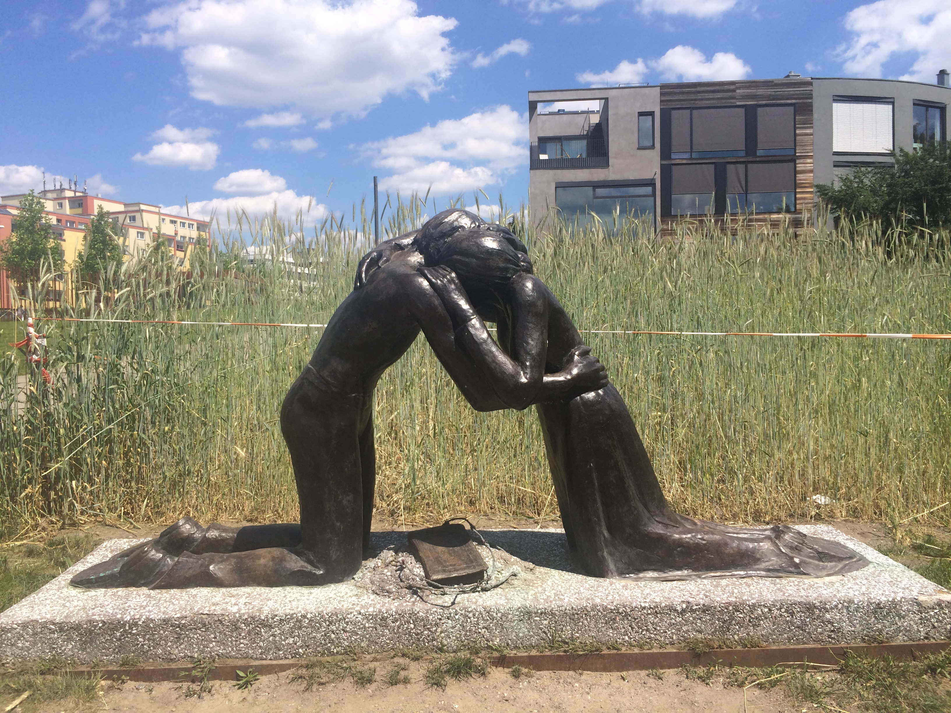 The sculpture 'Reconciliation' by Josefina de Vasconcellos was made on the 10th anniversary of the opening of the Berlin Wall on 9 November 1999 in front of the Chapel of Reconciliation in Berlin. The original (1977) is available in the School of Peace Studies at Bradford University. Additional copies of the sculpture are in Hiroshima, in the cathedral of Coventry and at Stormont Estate, Belfast.